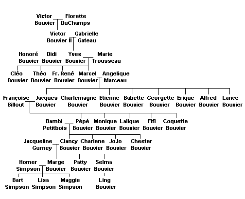 The family tree of the fictional Bouvier family from the animated series The Simpsons